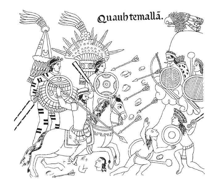 Page from the 16th-century Lienzo de Tlaxcala (reproduction from 1892) showing the Spanish conquest of Quauhtemalla (Guatemala, or Iximche, in Guatemala).